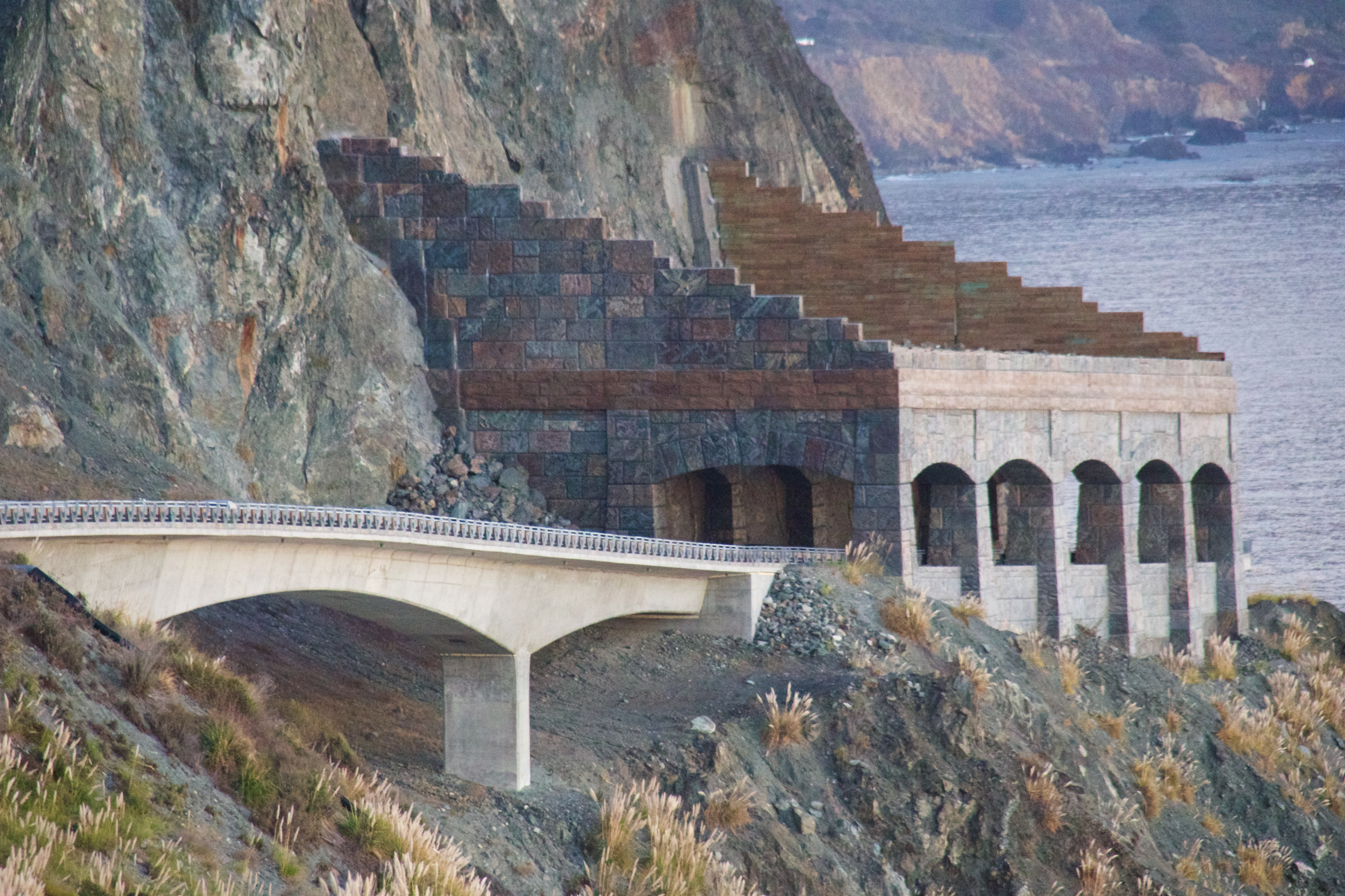 The Pitkins Curve bridge and the Rain Rocks Rock Shed at Pitkins Curve on Highway 1 on the Big Sur, California, coast.